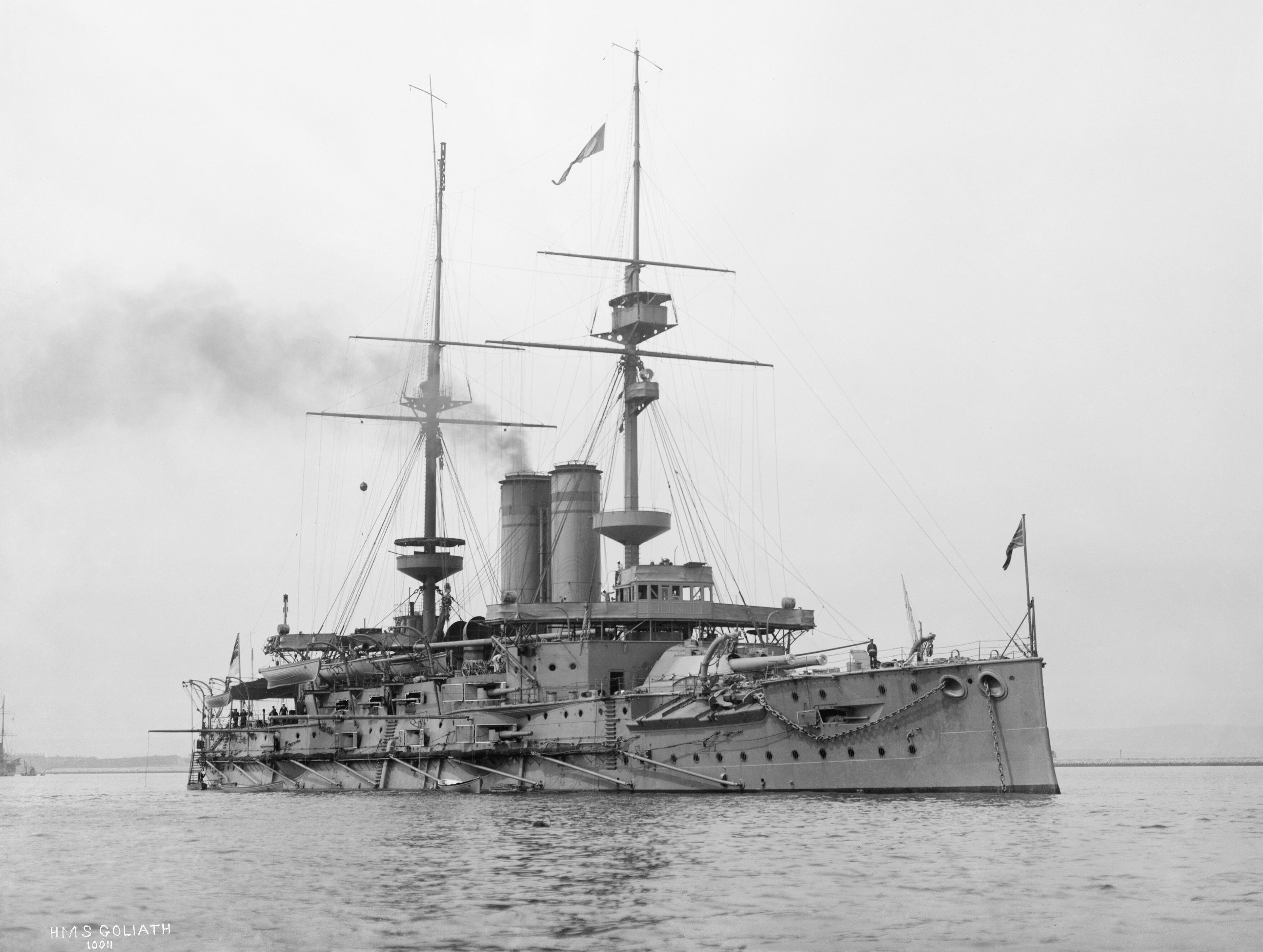 British Ships of the First World War HMS GOLIATH. Torpedoed and sunk off Cape Helles in the Dardanelles, 13 May 1915.